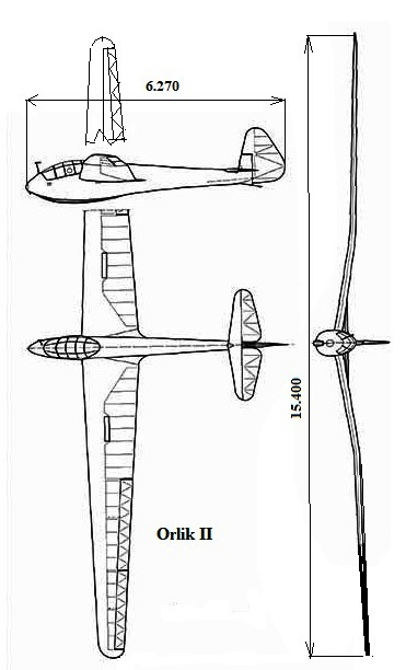 Glider Orlik II